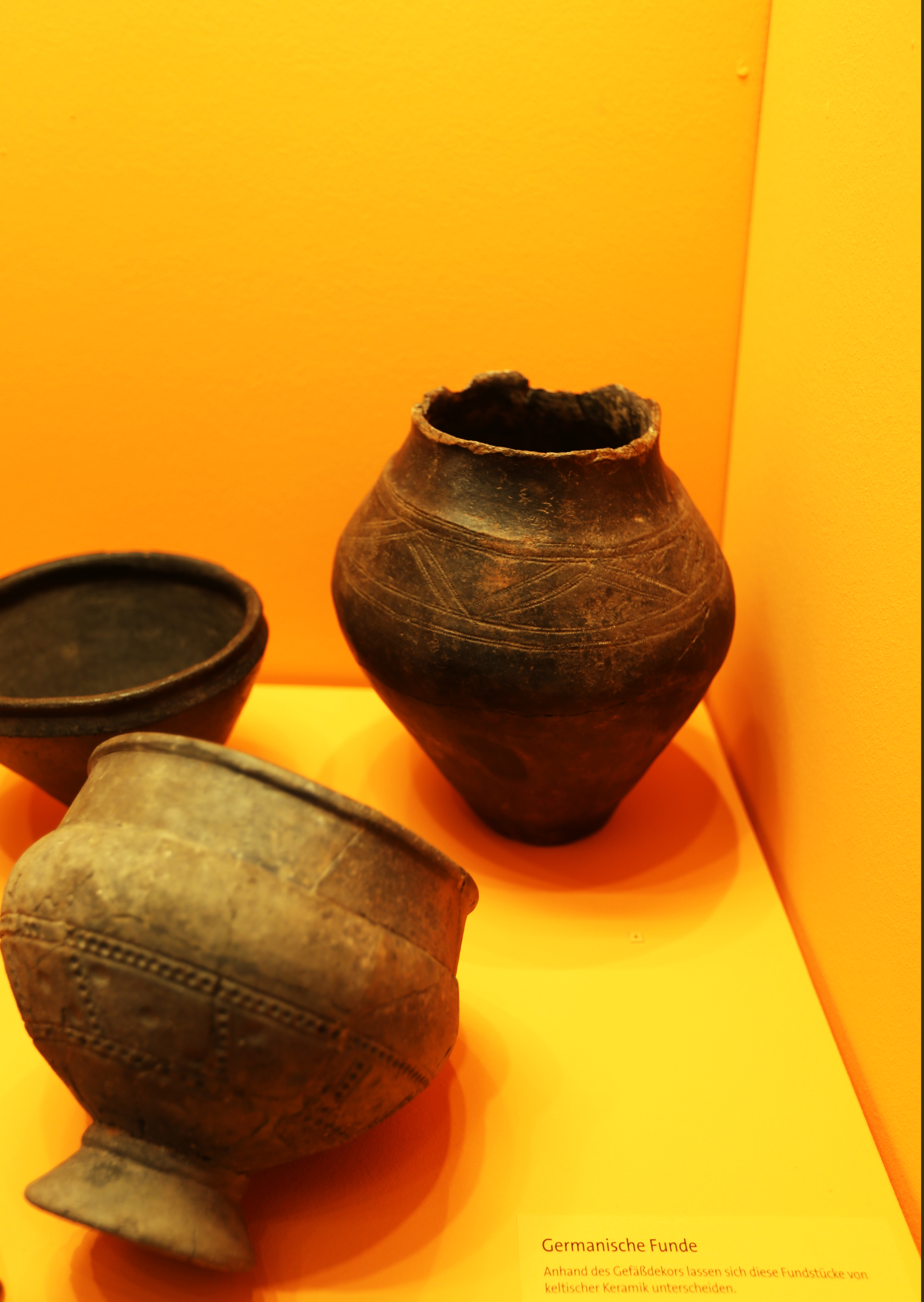 Pottery of Teuton tribes (archäological funds, 10 AD). Location: Alfter, North Rhine-Westphalia, Germany